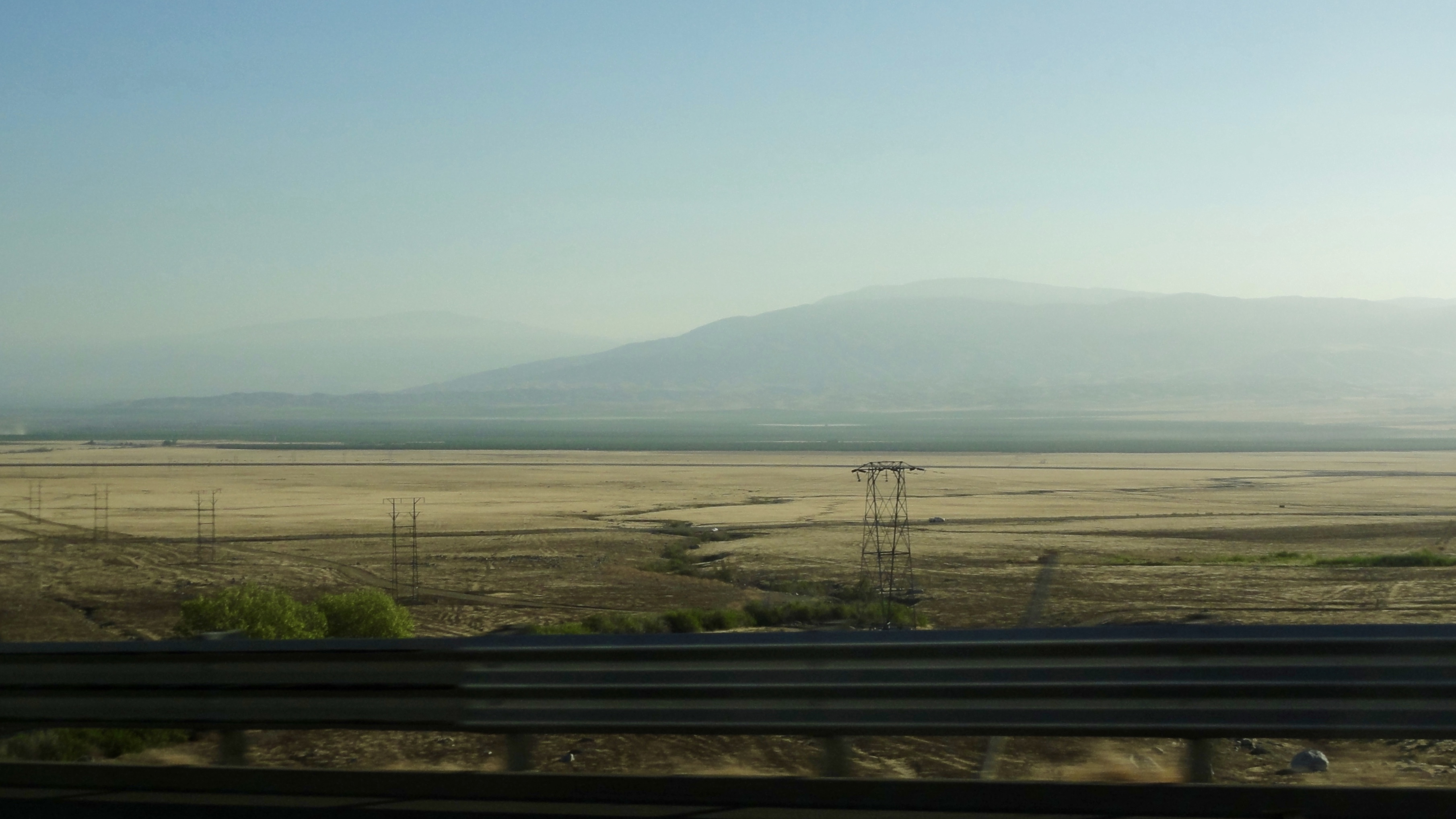 View of the Tehachapi Mountains from I-5 as it approached Grapevine, CA.